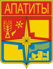 Apatity (Murmansk oblast), coat of arms (1973)